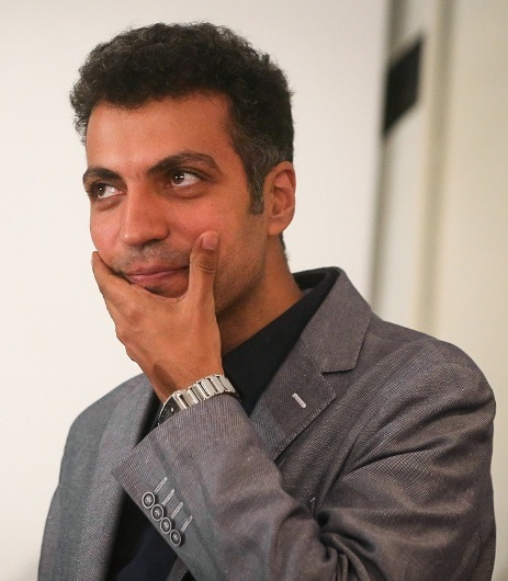 Adel Ferdosipour